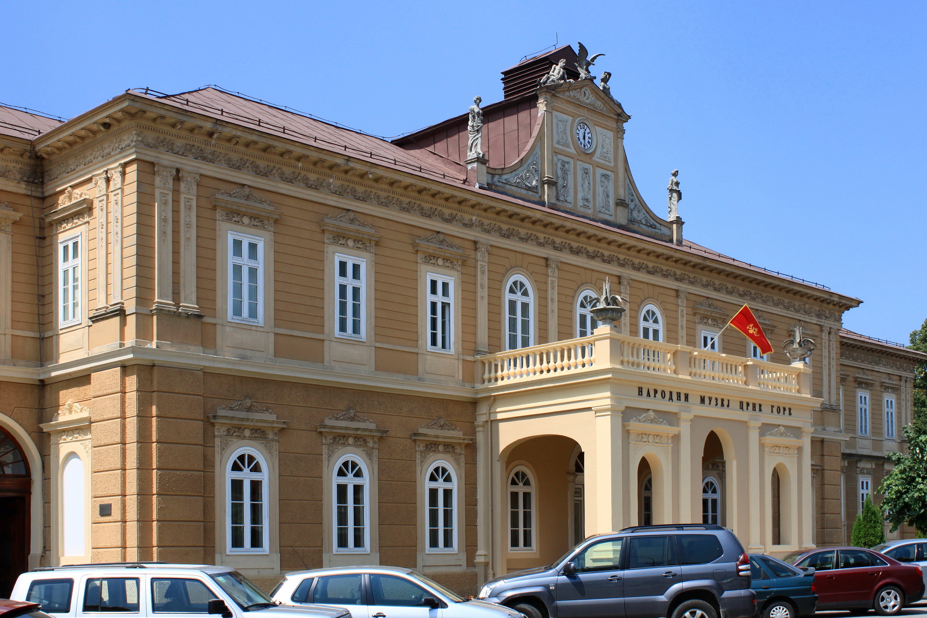 Government House - former parliament building of Montenegro. Currently: Art Museum and Historical Museum. Cetinje, Montenegro.